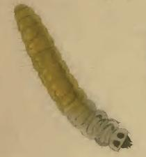 Stainton’s Natural History of the Tineina (1855–1873): Augasma aeratella